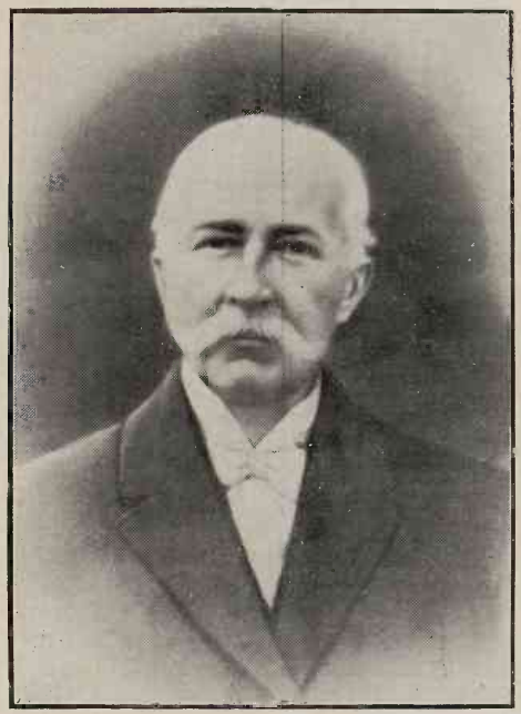 The Regent Gheorghe Buzdugan in 1929, his last known photo when alive.